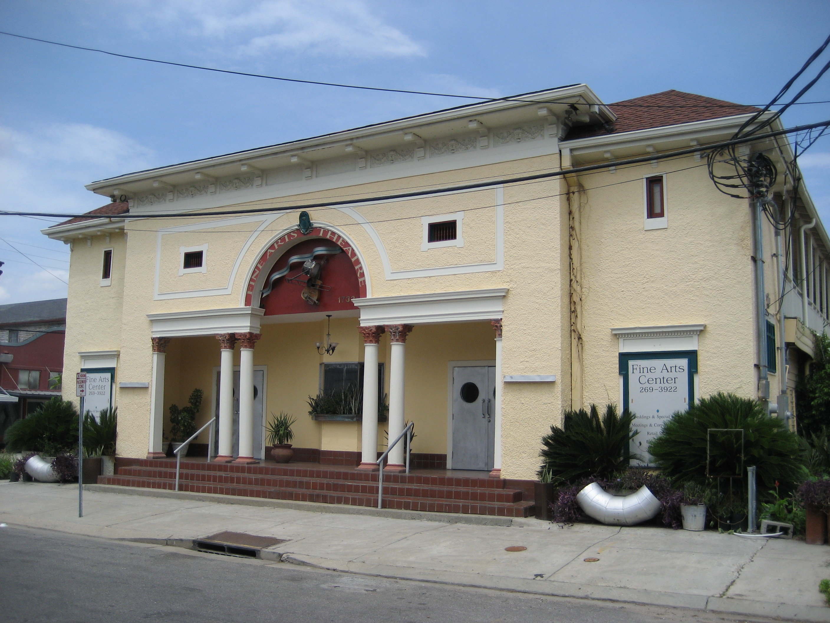 Uptown New Orleans. "Fine Arts Theater" building. Old neighborhood cinema, used as warehouse in late 20th century, more recently dinner theater.